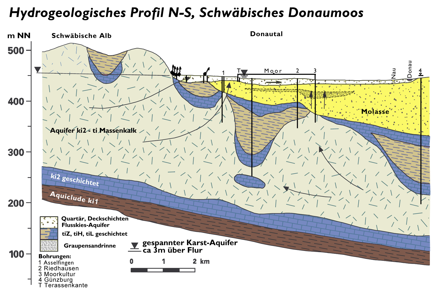 Hydrogeological Profil of the „Schwäbisches Donaumoos“, N-S. beddings and groundwater-aquifers between Swabian Alb and southern border of the Upper Danube. For the geologically documented miocene “Graupensandrinne“, see the graphic: Image:Graupensandrinne Hegau Schwäbische Alb1.jpg. The area next after Ulm/Langenau is a permanent wetland of ca. 7,5x15 km, devided by the border Baden-Württemberg and Bavaria. In this area the meltwater of the pleistocene river Upper Danube transported gravel, over time forming gravel beds of enormous size, functioning as a groundwater reservoir, which kept the surface a wetland. This kind of “full water tub” contains the karst waters of the southeastern Swabian Alb, mainly from river Lone and its dry valley-tributaries. This river network meanwhile percolates ca. 80% of its precipitation underground to the wetland area of the Danube. Four large karst springs in Langenau, the biotope/geotope]/natural monument Grimmensee, the Naturschutzgebiet “Langenauer Ried”, „Leipheimer Moos” and “Gundelfinger Moos” are legally protected.